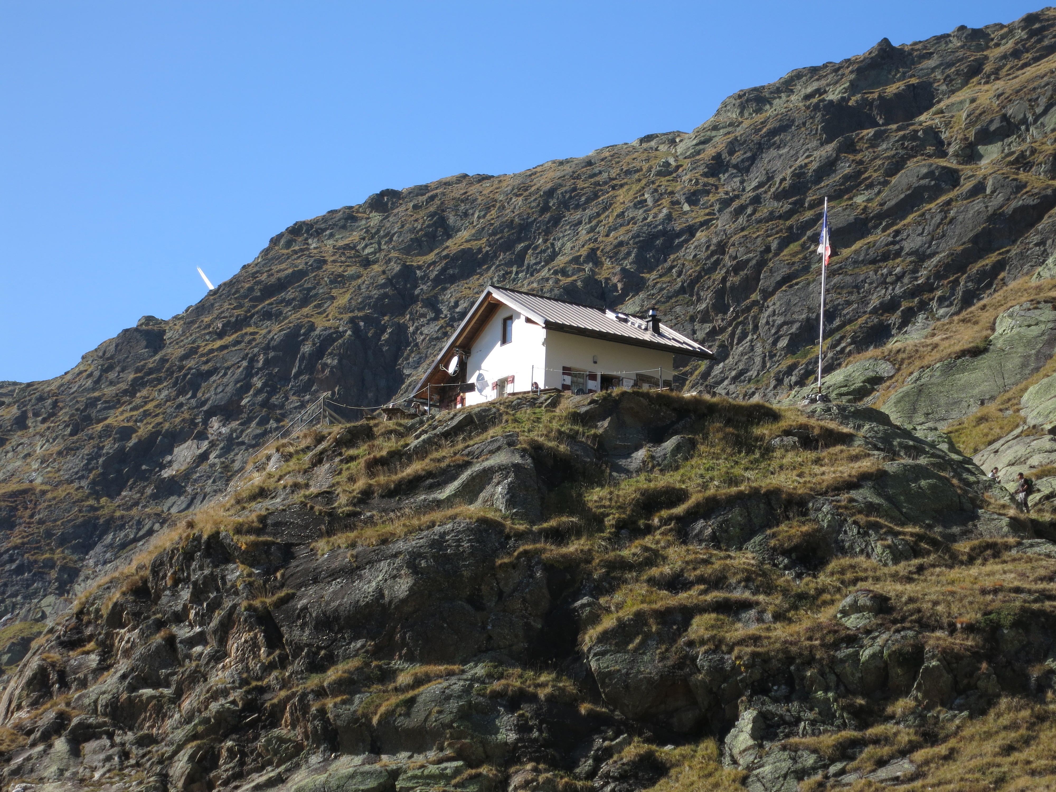 Grohmannhütte, refuge in South Tyrol